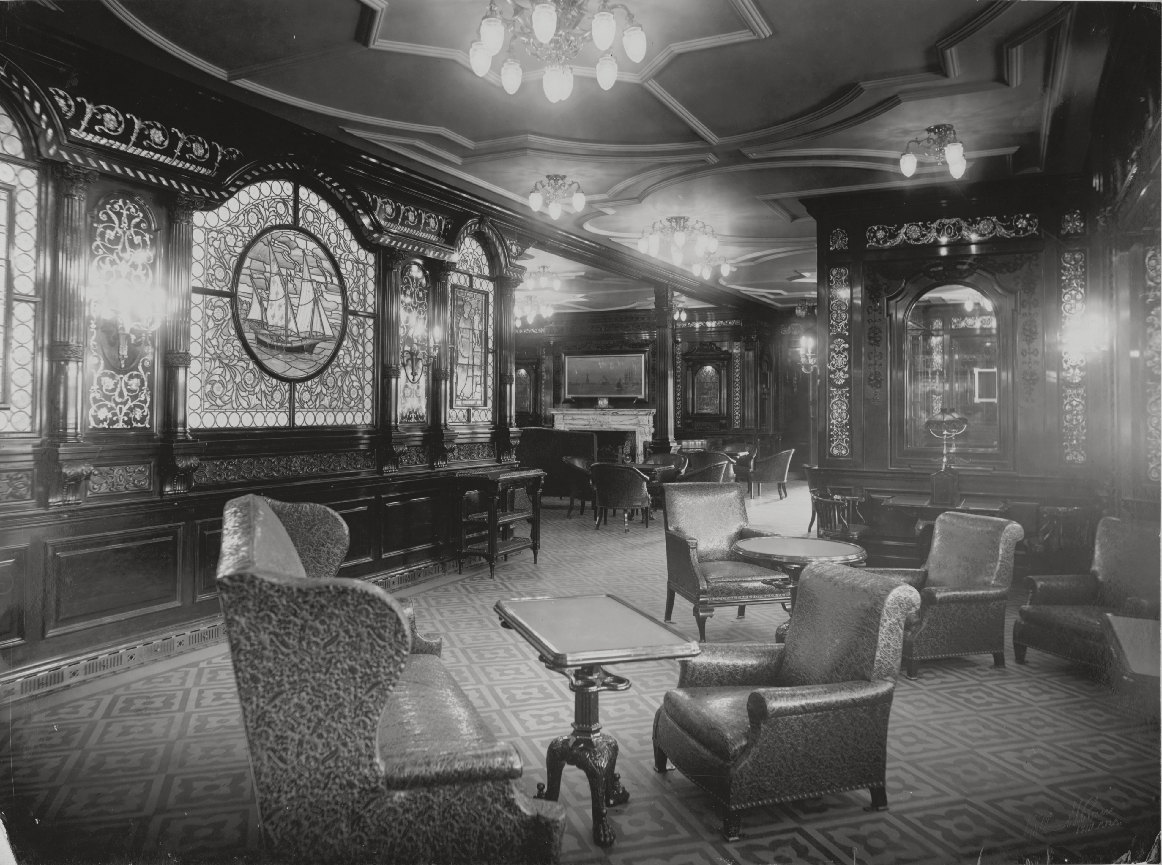 Photo of the Olimpic's First Class Smoking Room.